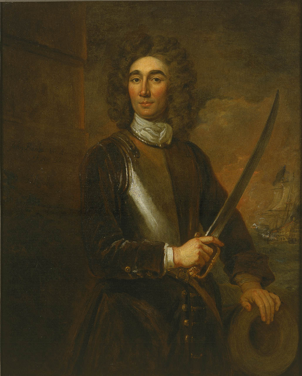 Portrait of Admiral John Benbow